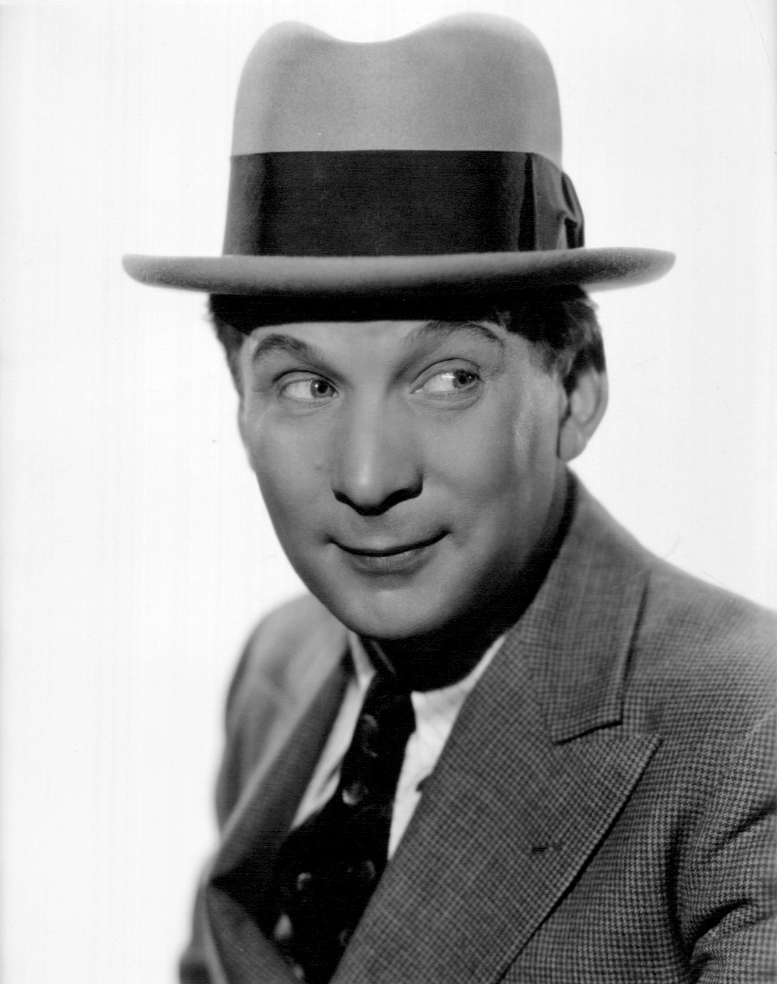 Photo of vaudeville artist and comedian El Brendel.